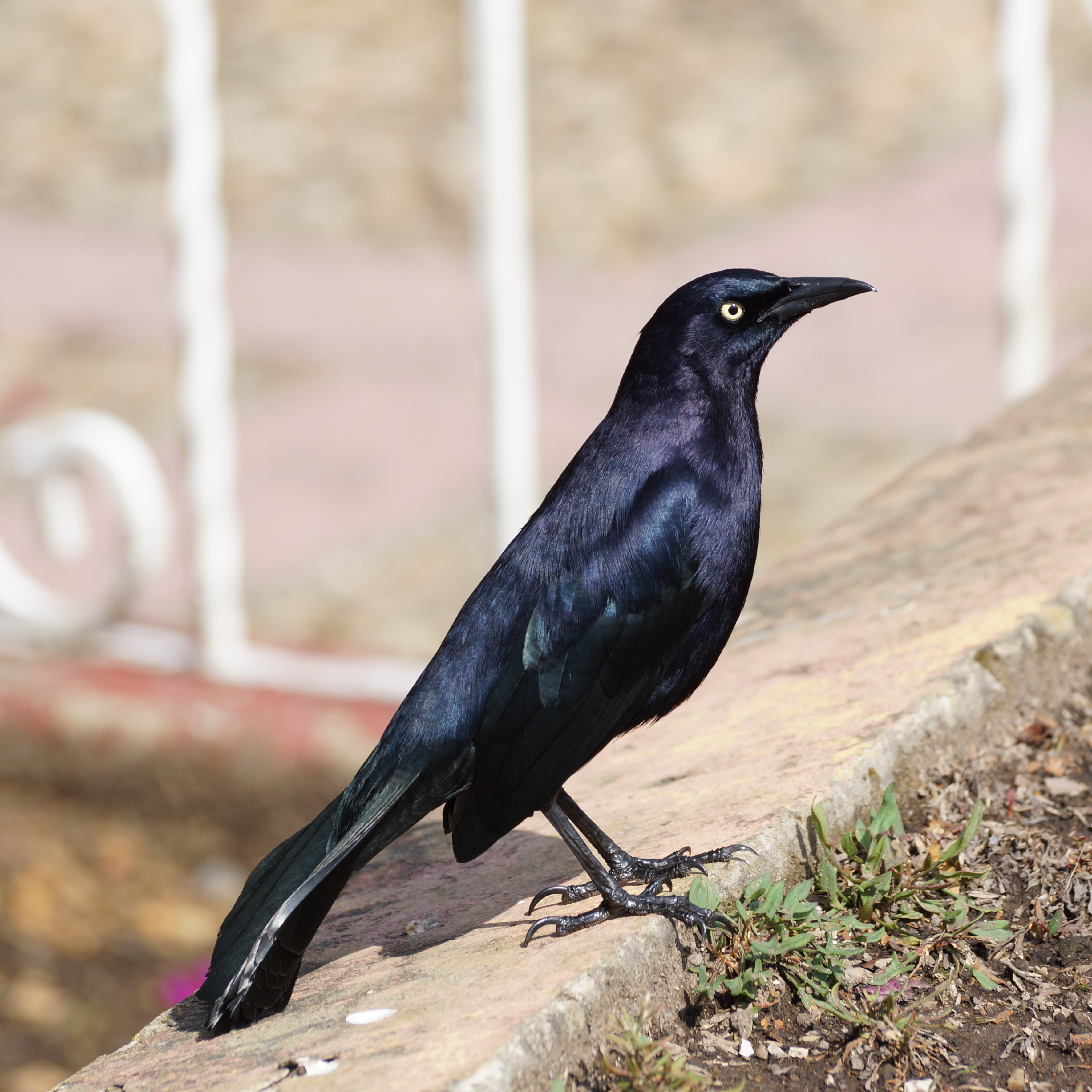 Quiscalus lugubris, male at 2570 m of altitude